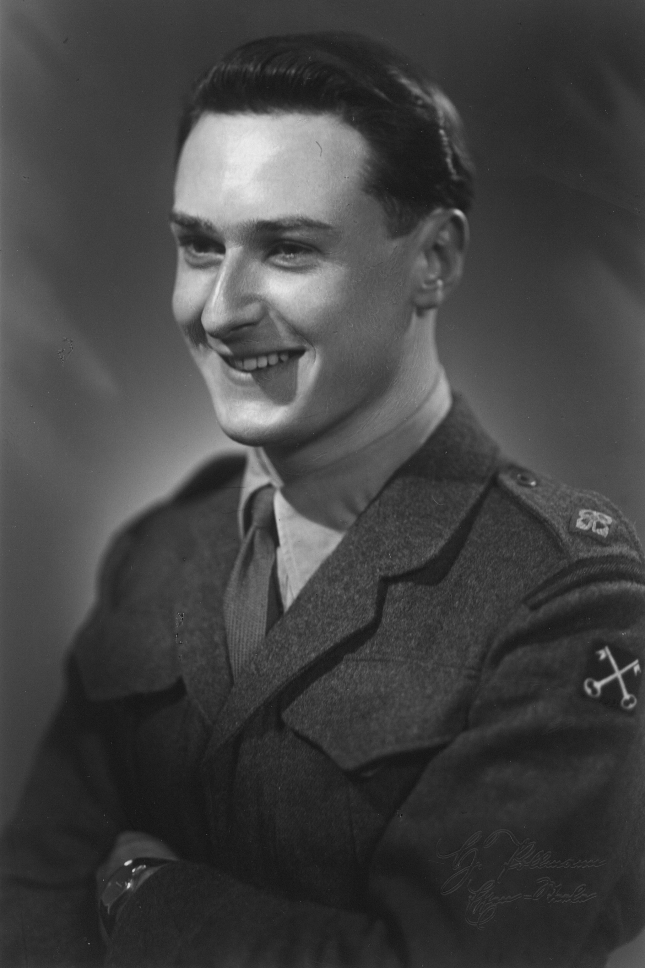 Ian Stewart during his National Service with The Gordon Highlanders.